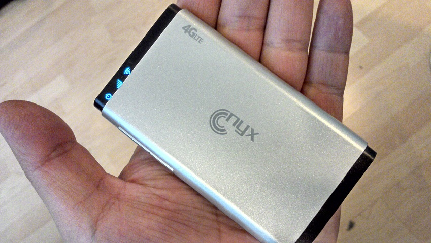 mifi LTE from nyx Mobile. Mobile router